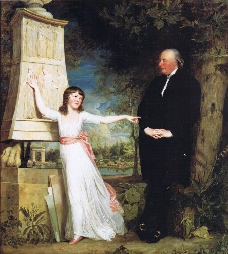 Frederick Hervey, Bishop of Derry and Fourth Earl of Bristol (1730 – 1803) with his Granddaughter Lady Caroline Crichton (1779-1856), in the Gardens of the Villa Borghese in Rome.